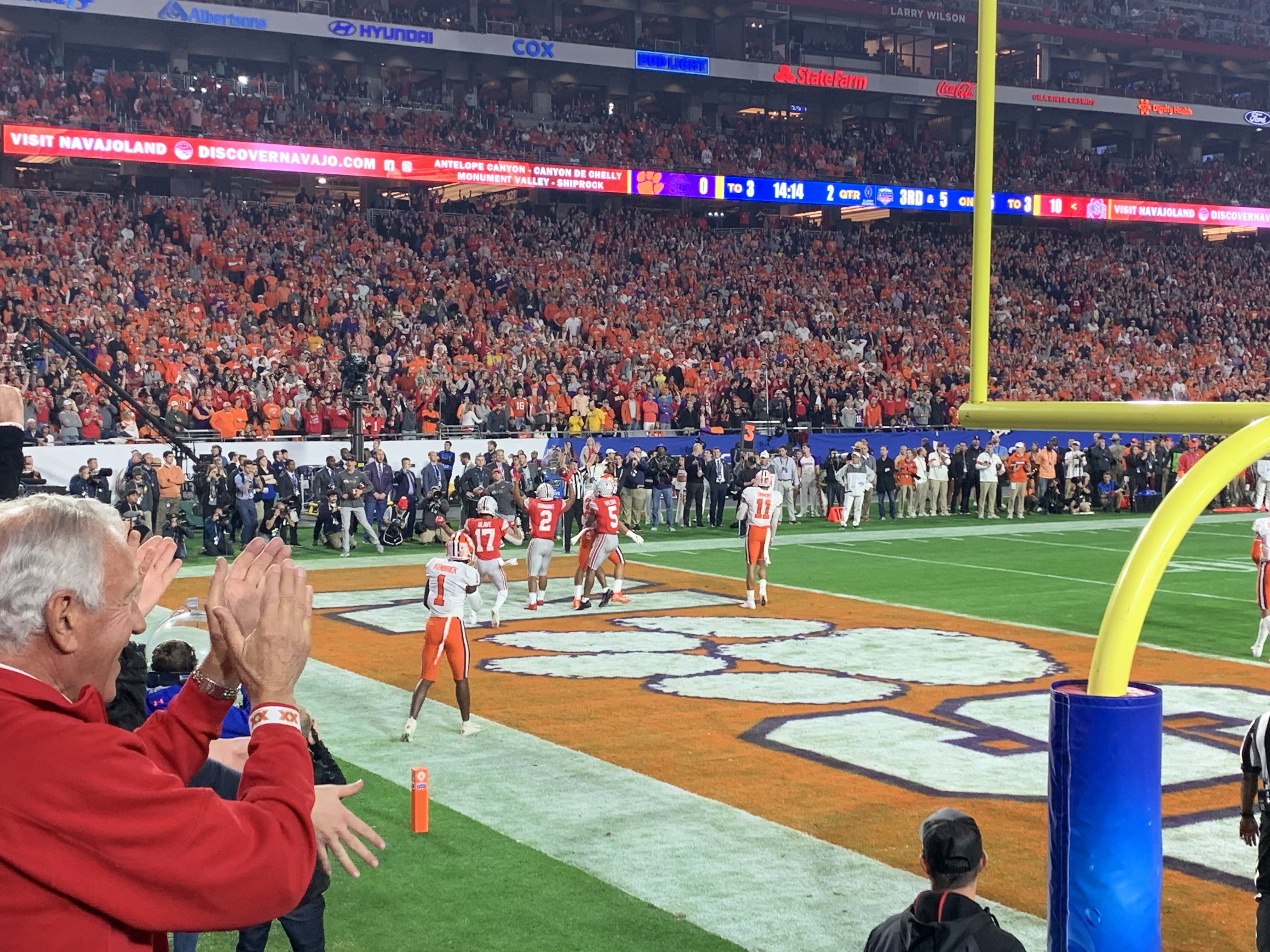 JK Dobbins Celebrating a first quarter touchdown at the December 2019 Fiesta Bowl. Photo taken from the south end of the stadium.